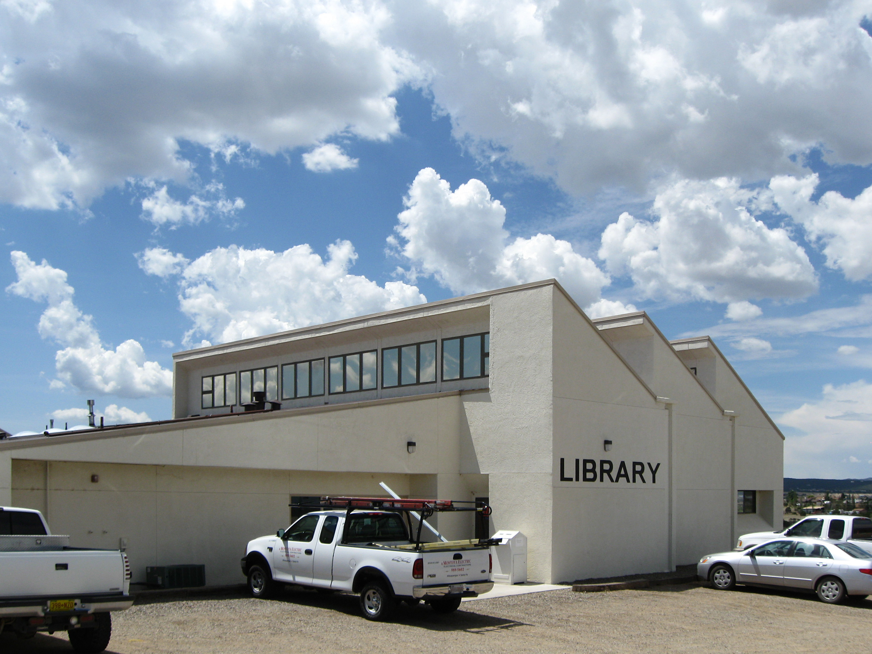 Edgewood (New Mexico) Public Library, located at 95 Highway 344 North.